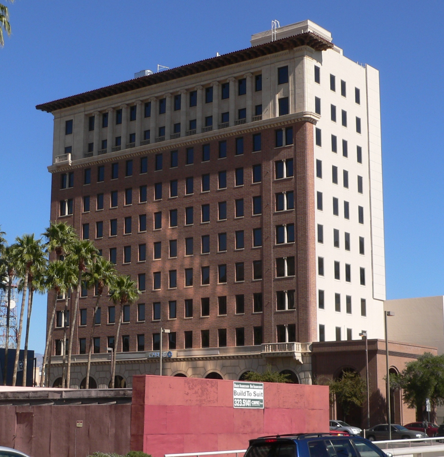 Valley National Bank Building, located at the southeast corner of Congress Street and Stone Avenue in Tucson, Arizona; seen from the southwest.